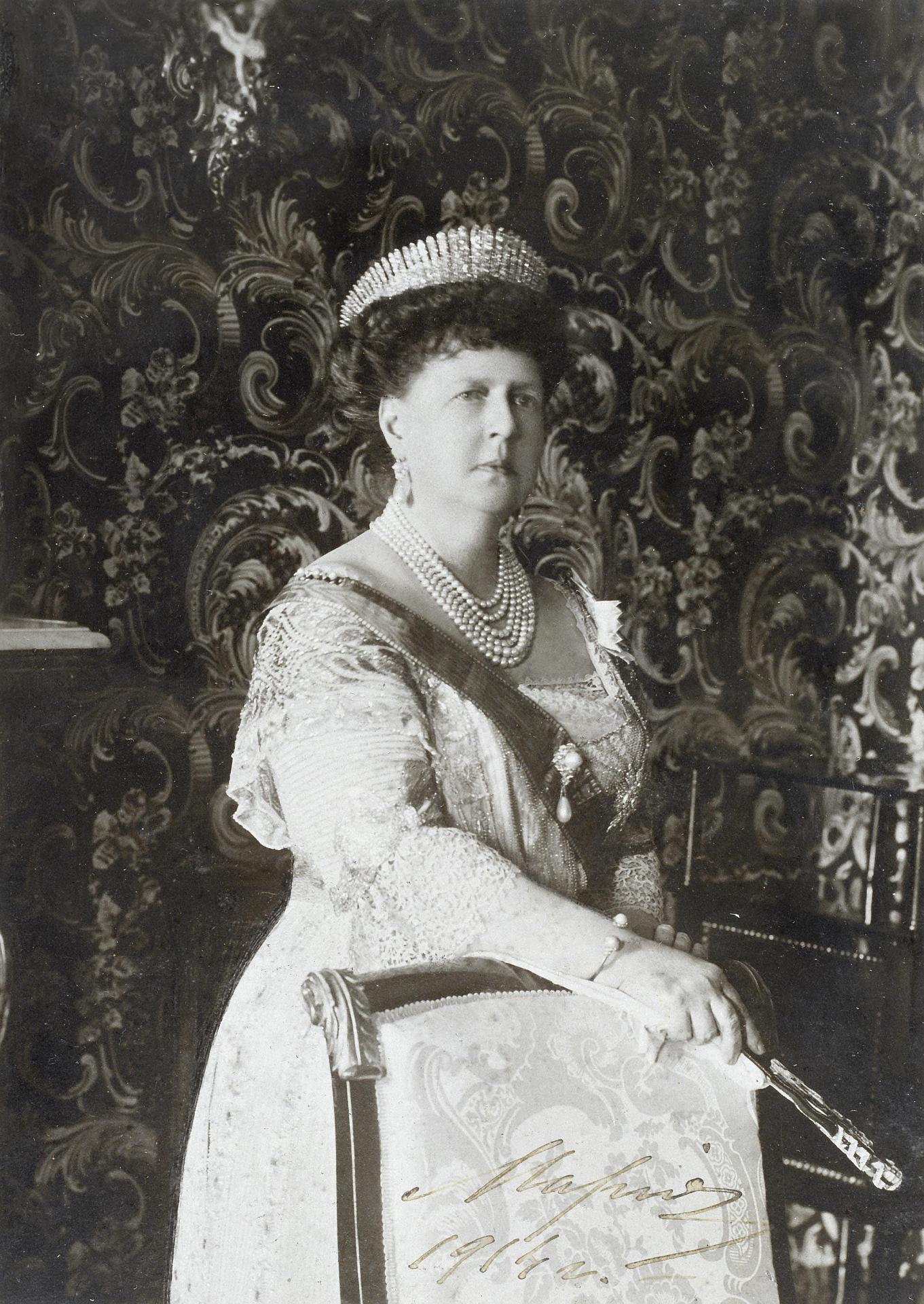 Grand Duchess Maria Alexandrovna, 1914. Городецкий, Л. Портрет великой княгини Марии Александровны, герцогини Эдинбургской Россия, 1914 г. фотография: платинотипия Размеры: 14х10; 27,5х22,5 см Инвентарный номер: ЭРФт-29400 Эрмитаж